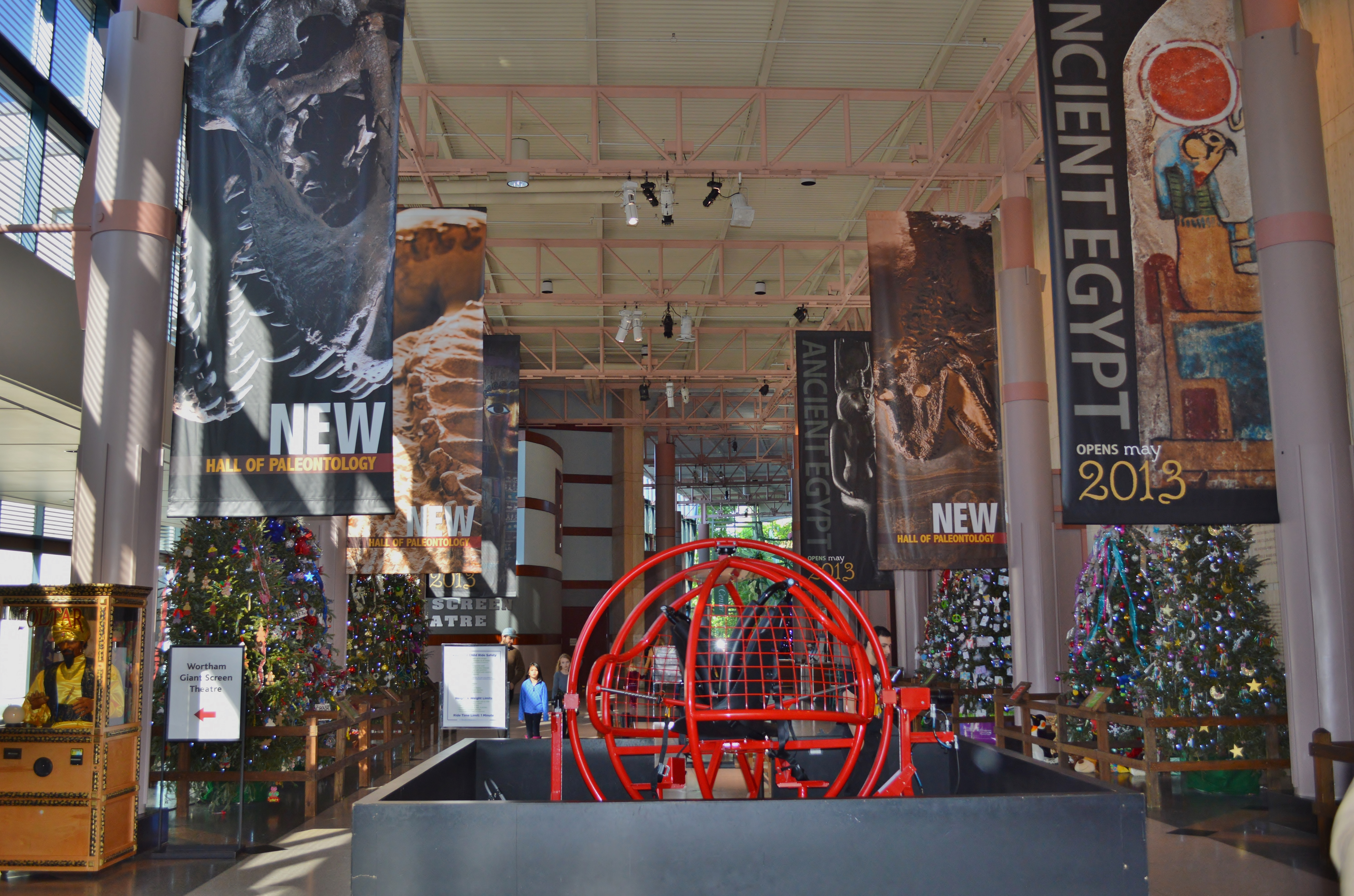 View of the Grand Entry Hall in the Houston Museum of Natural Science.